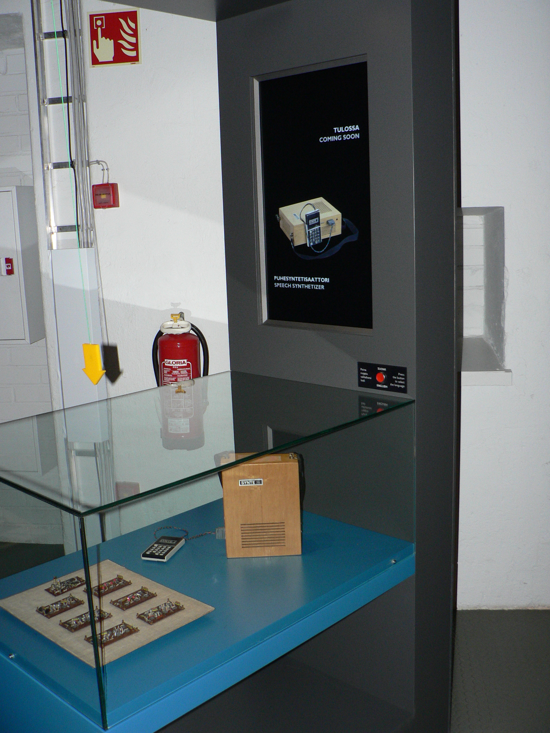 Synte 2 speech synthesizer at the Invention Exhibition at the Museum Center Vapriikki in Tampere, Finland, picture 2 (6.20.2012–)